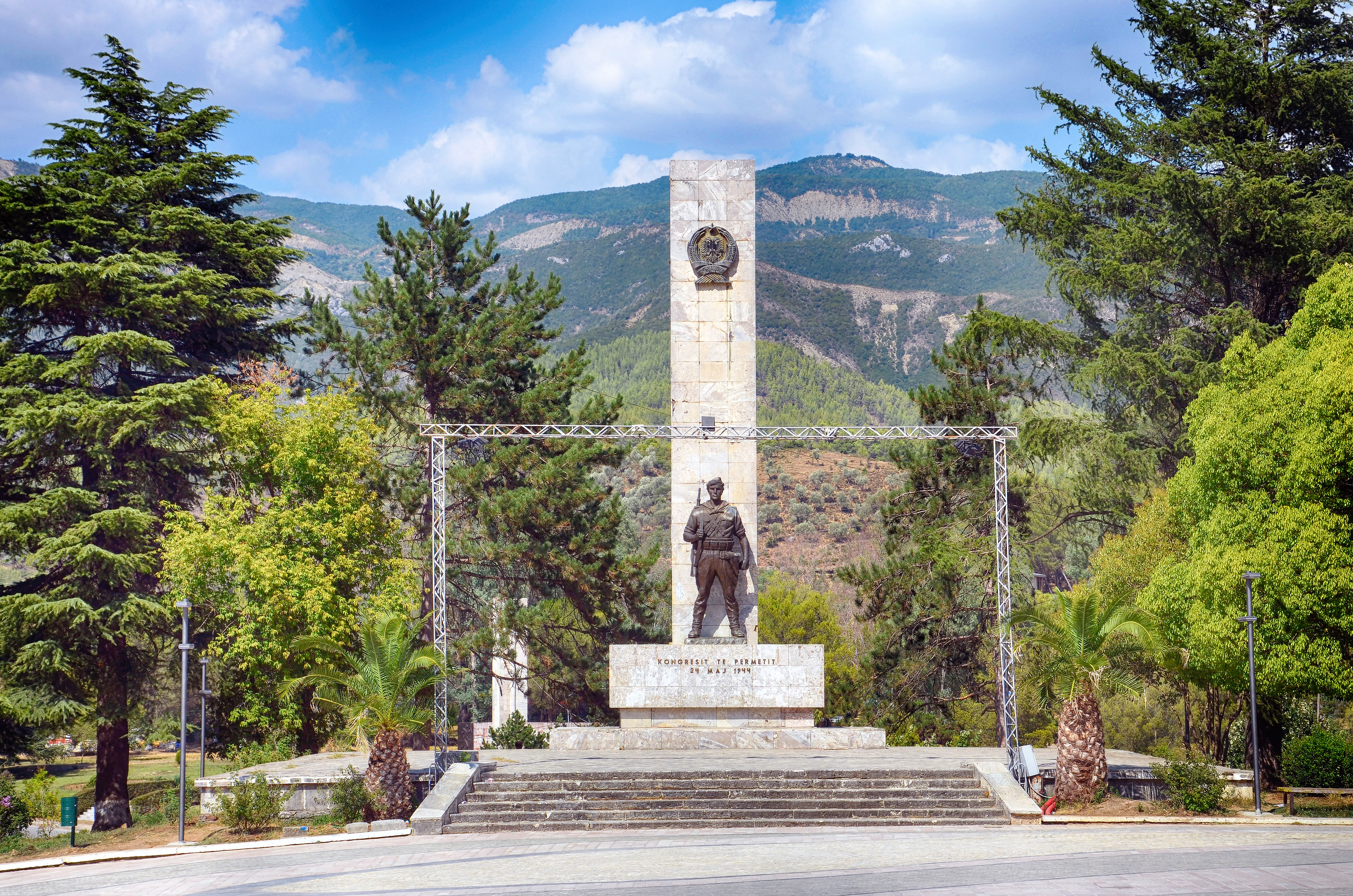 The monument of the 1944 Congress of Përmet